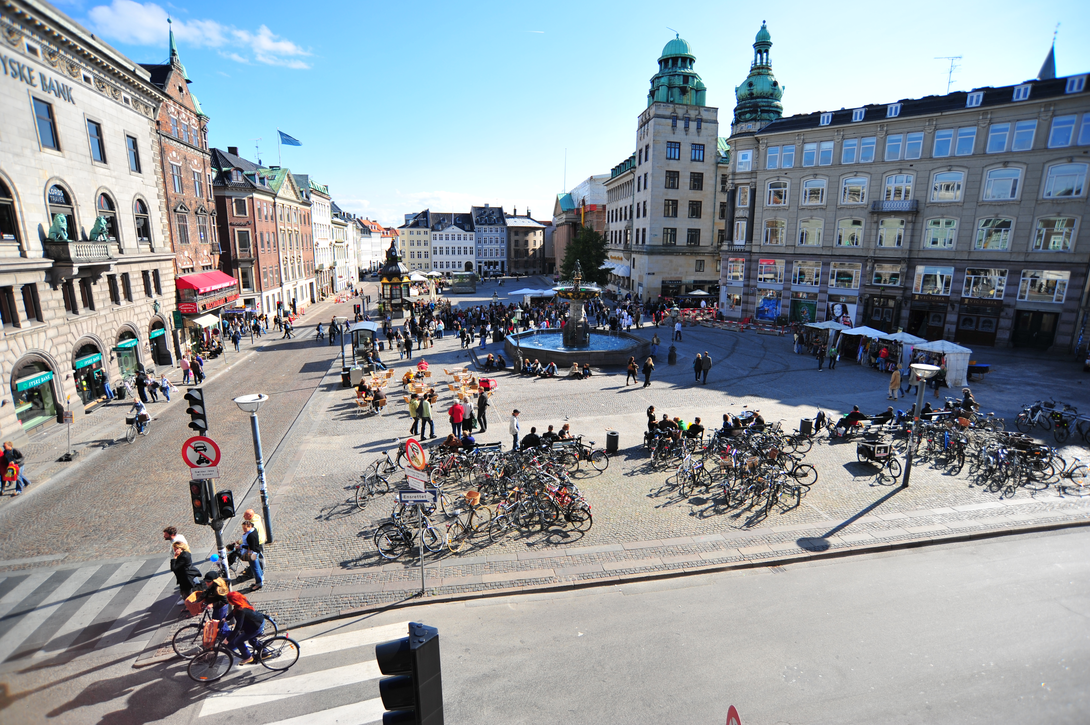 Picture of Gammeltorv (Old Square) in Copenhagen with clear view of the Charity Fountain.